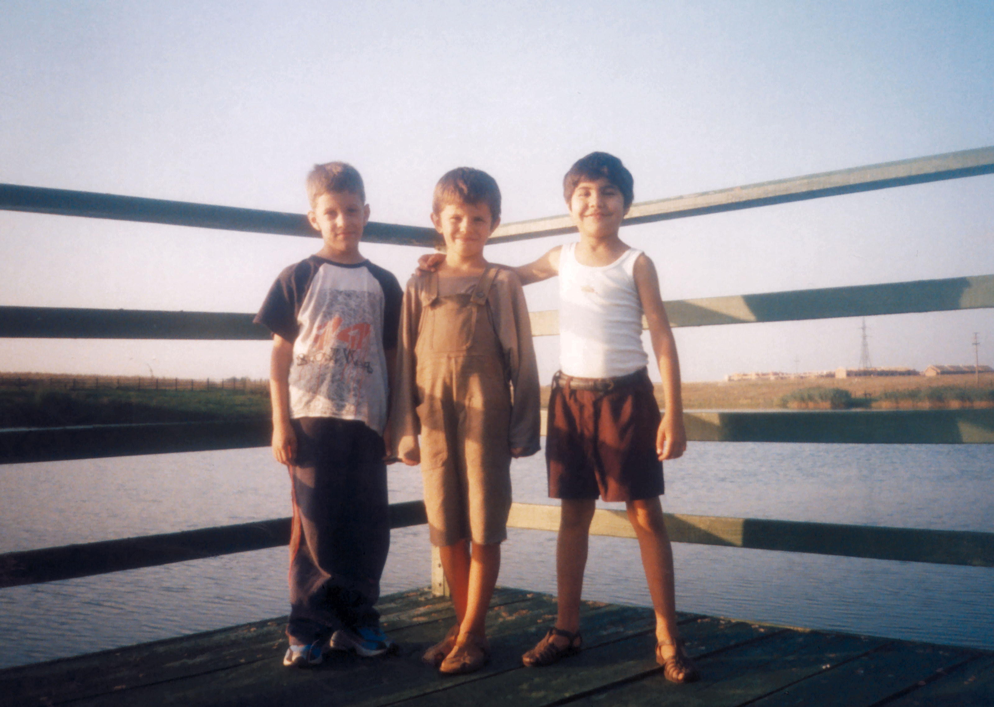 Photo of three young actors not far away from the set for Romanian director Cătălin Mitulescu's debut feature film, Cum mi-am petrecut sfârşitul lumii (2006). Taken in mid-August 2005 at a "private waterhole" near Pipera, Northern Bucharest. From left to right: Marian Stoica (Silvică), Timotei Duma (Lalalilu Matei) and Marius Valentino Stan (Tarzan). Stoica doesn't wear a costume for the set. Camera: Canon Prima DX II (film strip).